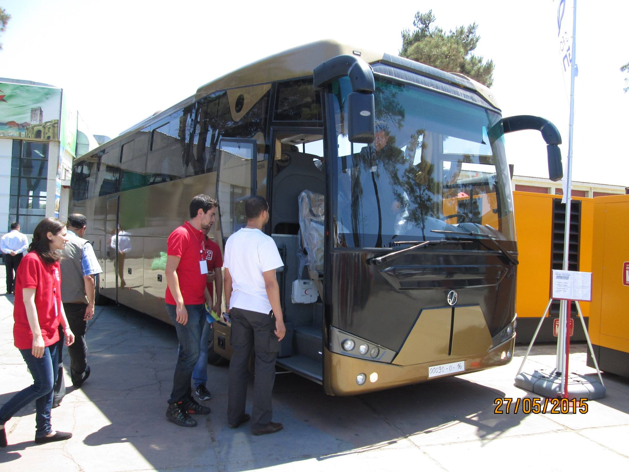 نوميديا سفير